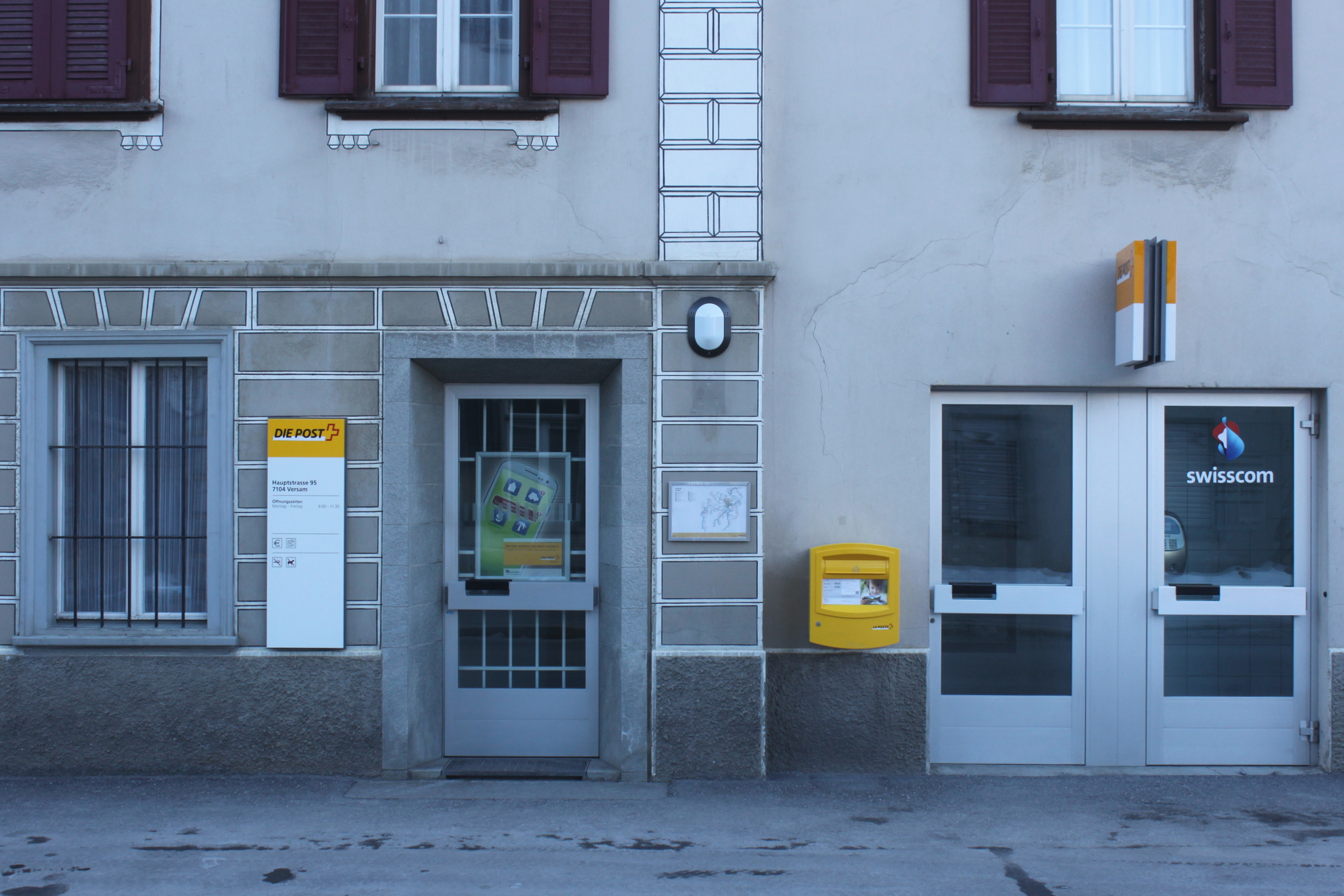 Post office and postal bus stop of 7104 Versam.